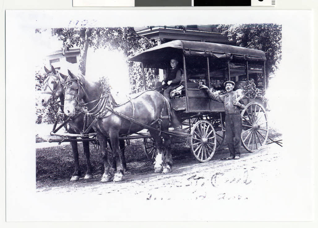 Jewish fruit peddlers. Irving Cooper was ten years old when the photo was taken--Irving is in the drivers seat. He is working with "Zadie" (Grandfather) Morris. Date: 1928 Source: 14 cm x 20.1 cm Format: Black and white photo Subject: Business and industry; St. Paul--businesses; Peddlers; Peddling; Horse drawn cart Coverage: St. Paul; Ramsey; Minnesota; United States Local Identifier: 1090P Link to our record: From the Steinfeldt Photography Collection of the